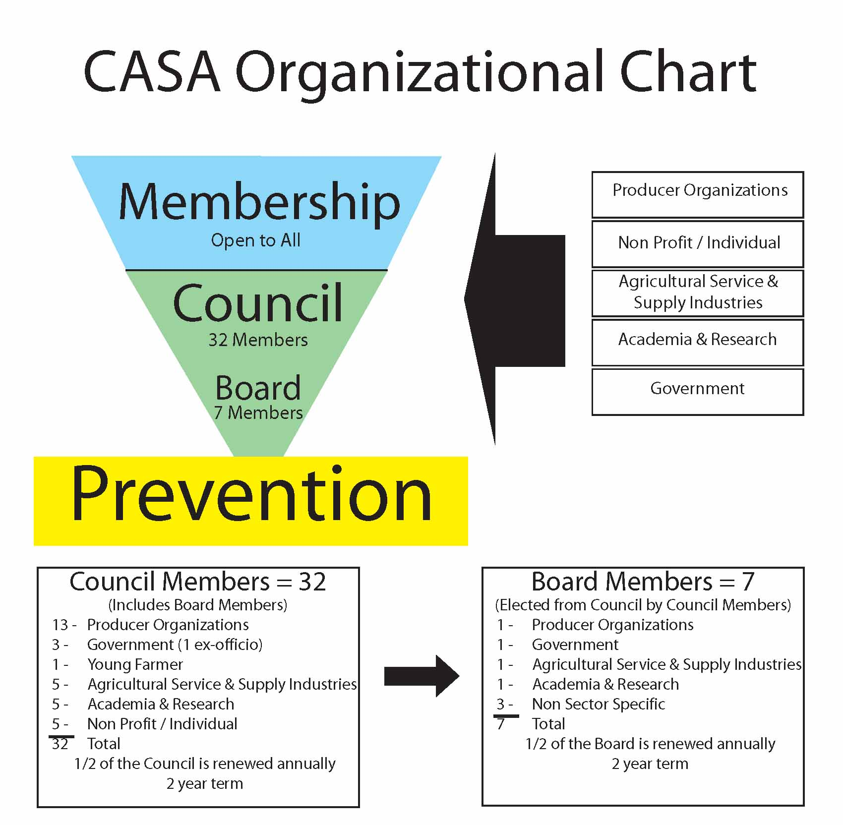 Casa's organizational structure